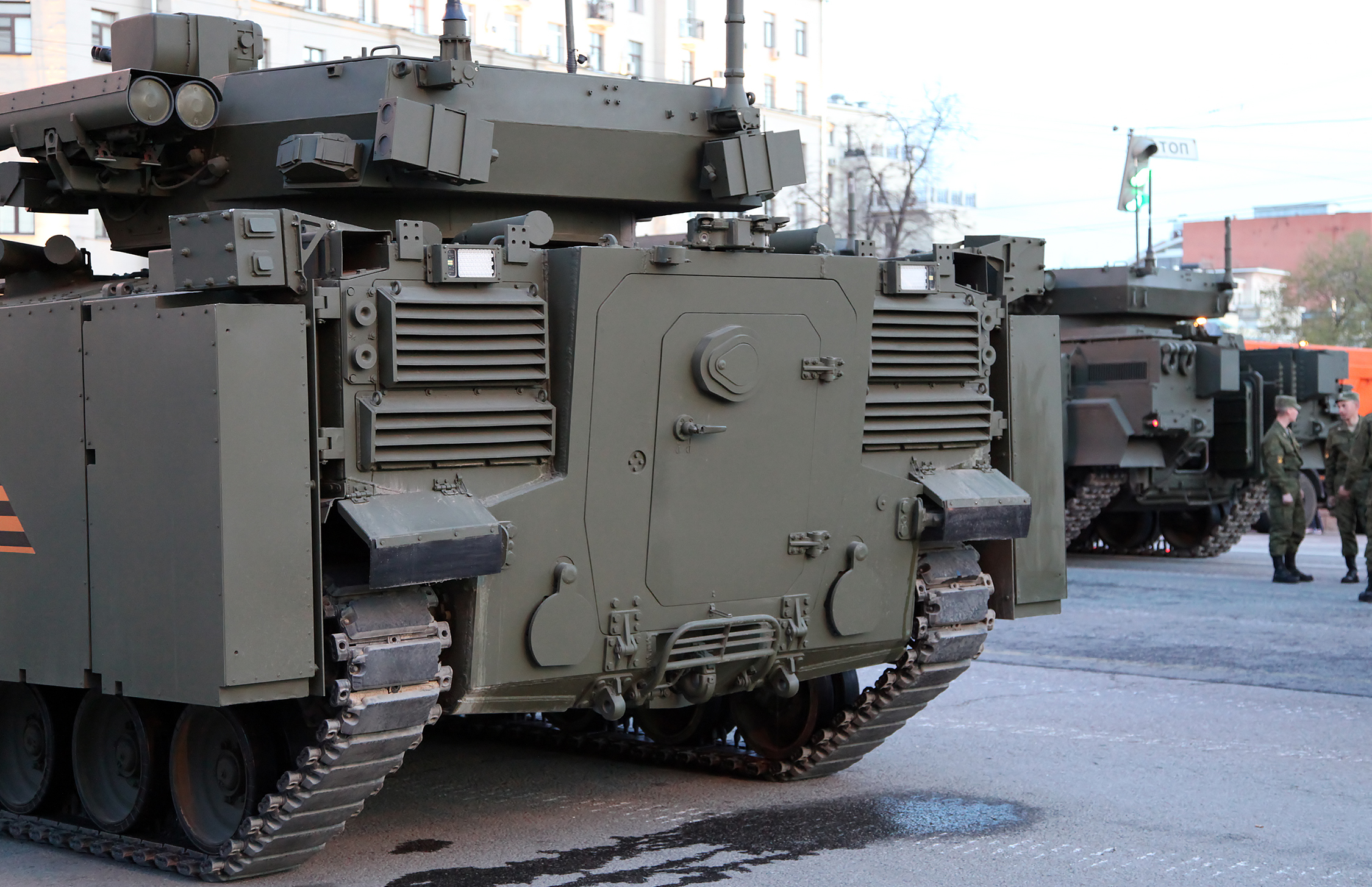 IFV object 695 on Kurganets-25 platform